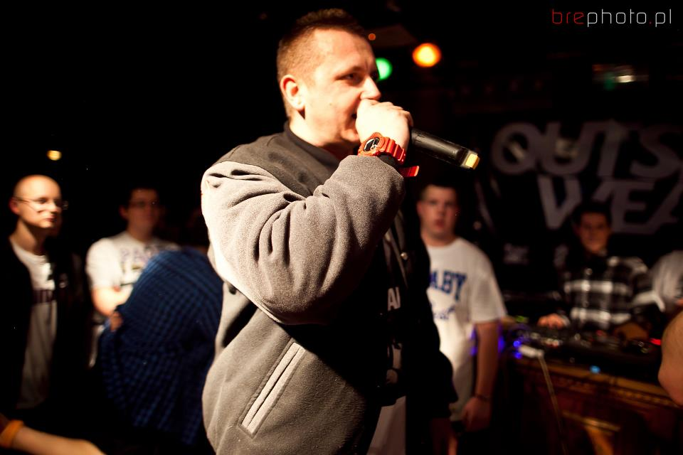 Polish rapper Borixon